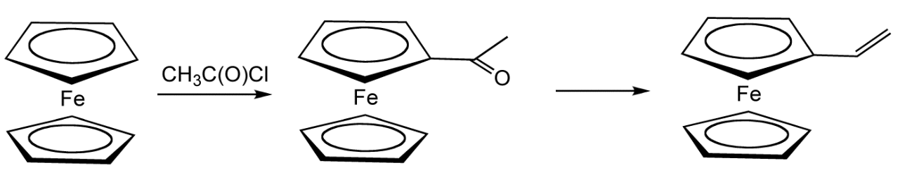 Vinylferrocene